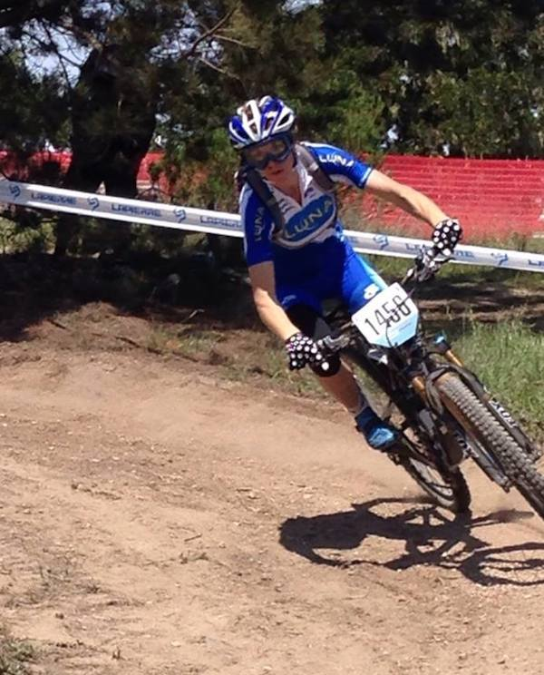 Marla Streb at the Sea Otter Enduro 2014, winning the first stage